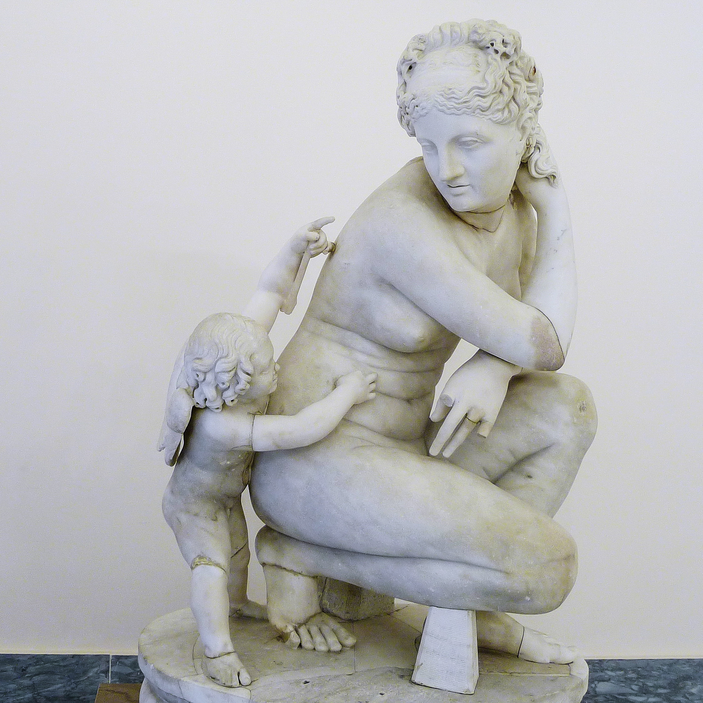 Crouching Venus and Cupid: copy of Greek original attr. Doidalsas; Farnese collection; Museo archeologico nazionale di Napoli